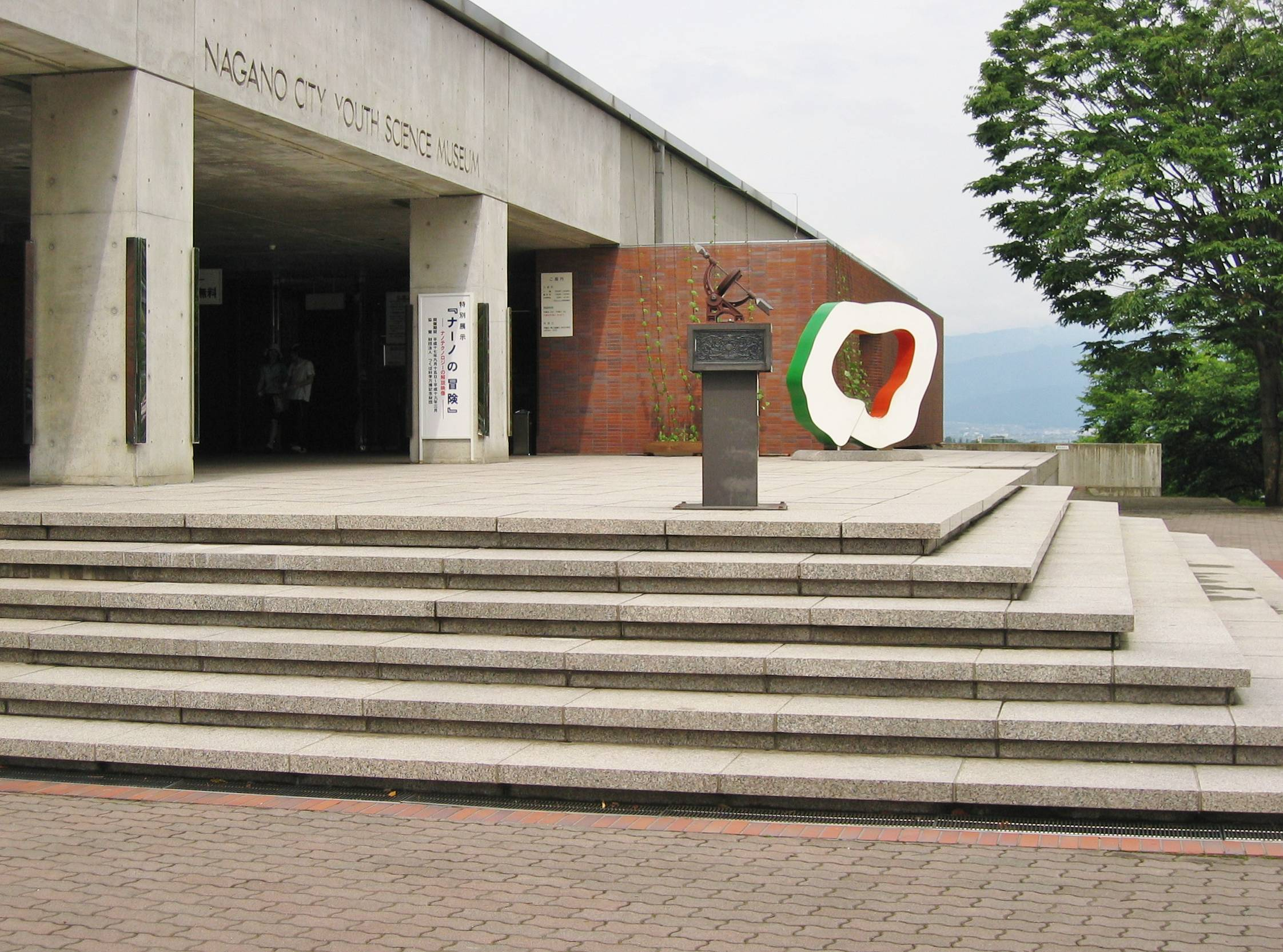 Nagano City Youth Science Museum.